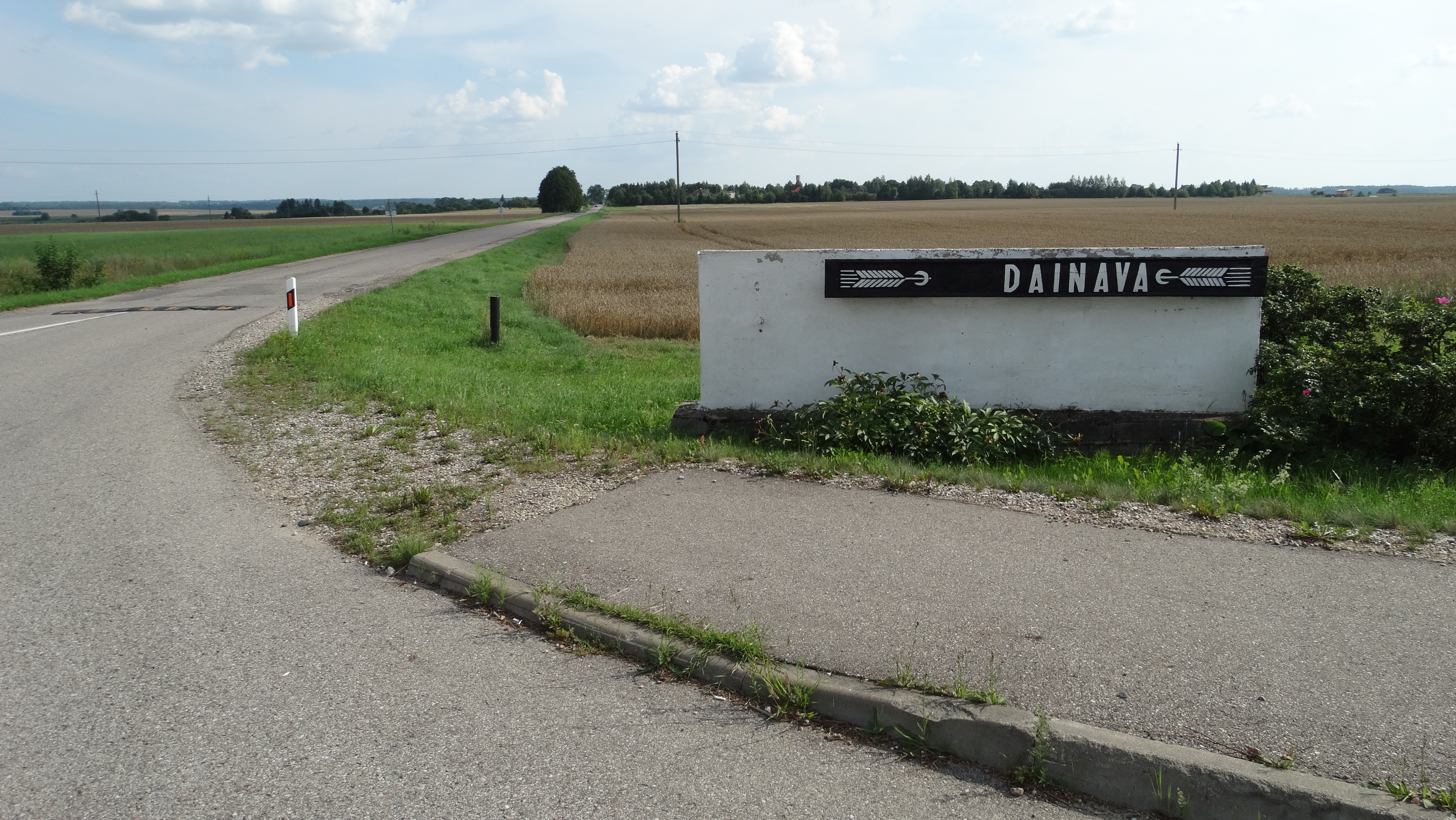 Dainava, Ukmergė District, Lithuania